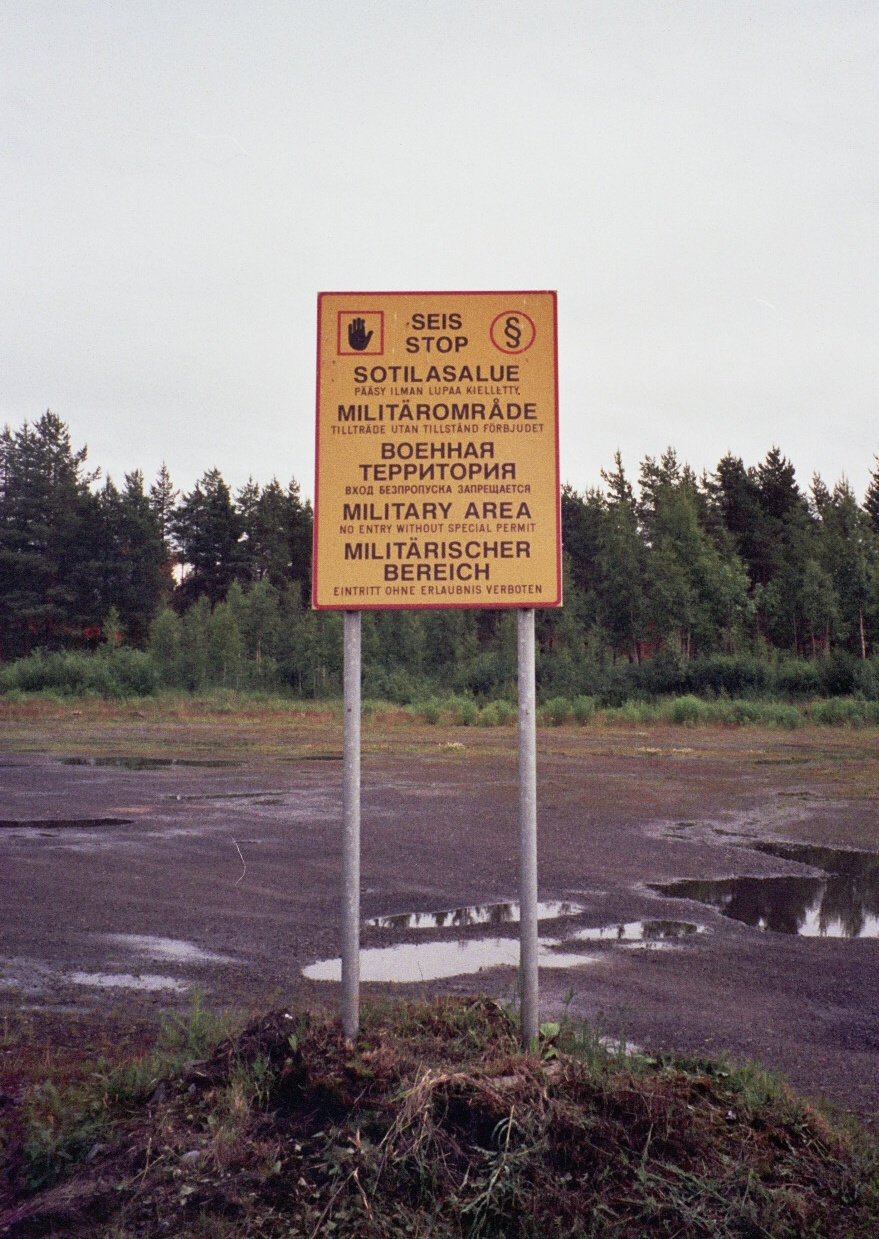 A "STOP – military area" sign in the former area of Pohja Brigade (unit disbanded in 1998) at Hiukkavaara in Oulu, Finland.